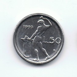 Third series of 50 Italian Lire. This coin has a diameter of 16.55 mm, being smaller than the previous series, which measured 24.8 mm.